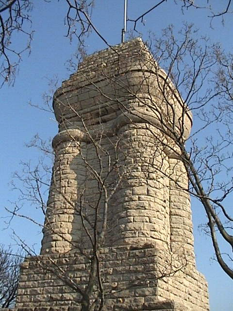 The Reuster Turm, a Bismarck Tower in the Thuringian community of Rückersdorf.